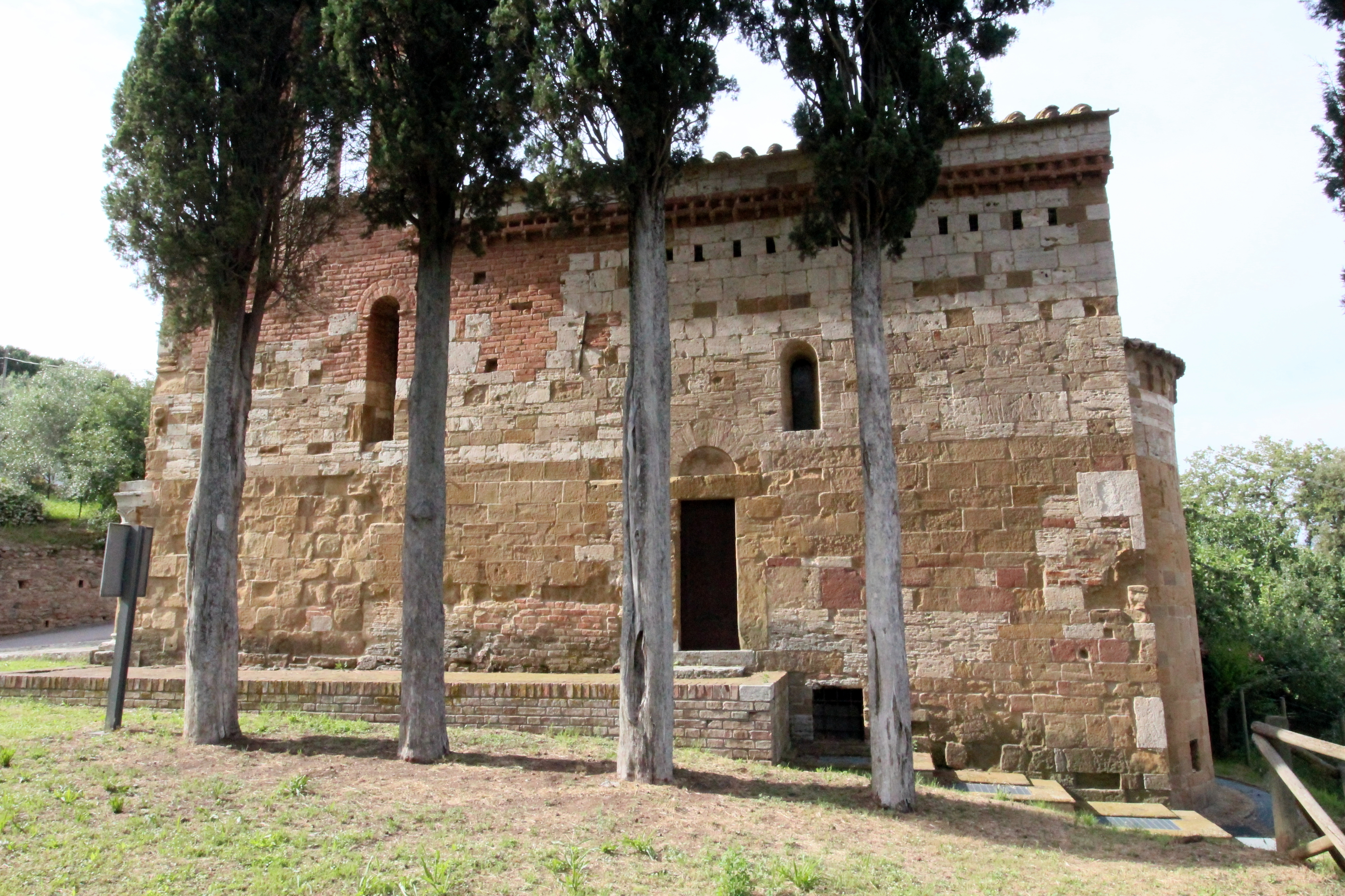 Church San Pietro in Villore in San Giovanni d’Asso, Crete Senesi, Province of Siena, Tuscany, Italy